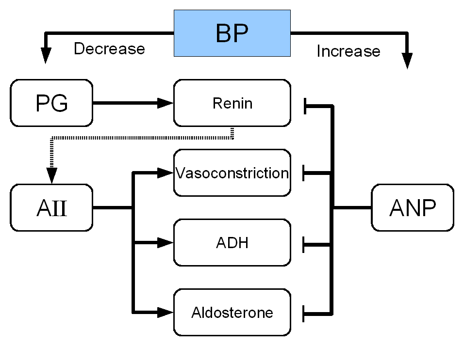 Renal Hormone Regulation Schematic. Describes the competing and complimentary effects of Renin, Prostaglandin, ADH (vasopressin), ANP, and Aldosterone on blood pressure. Developed during my Pharmacy School Career. Thank's to Dr. Gary Delander who forced be to assimilate the information and come up with this diagram to keep it straight. Copyright 2007 Ted D. Williams